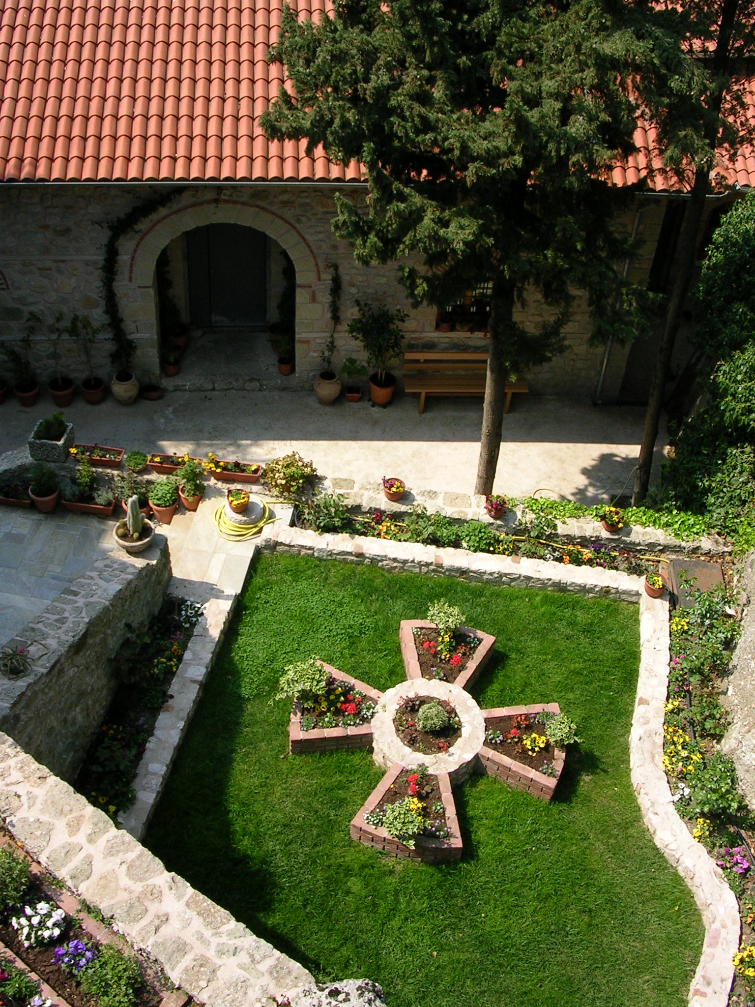 The Holy Monastery of Rousanou, Greece.